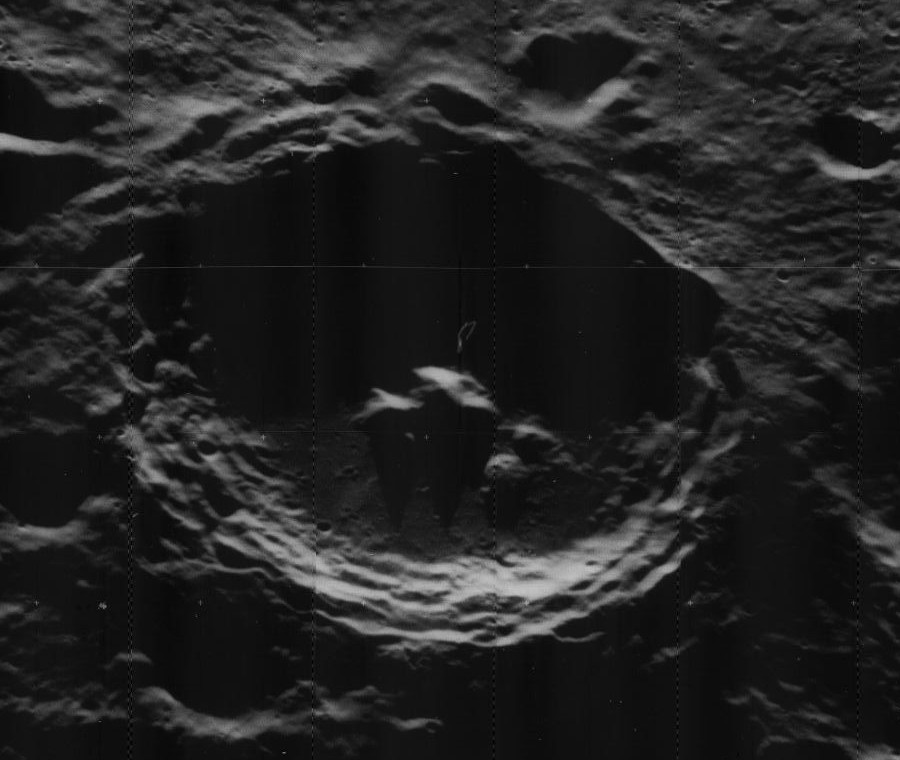 Oblique view of Robertson, on the far side of the moon, facing west.